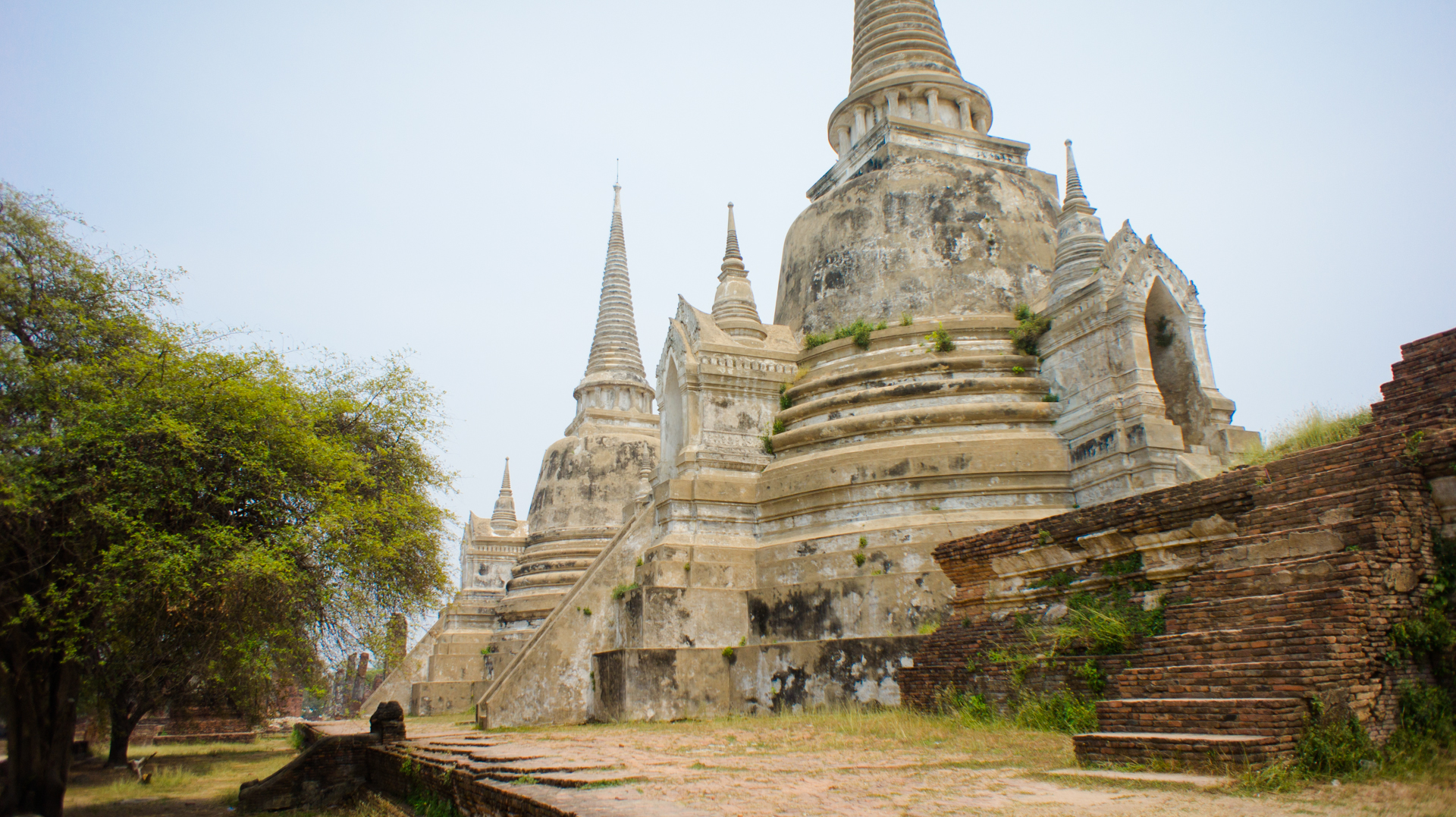 Pagodas in Ayutthaya historical park.